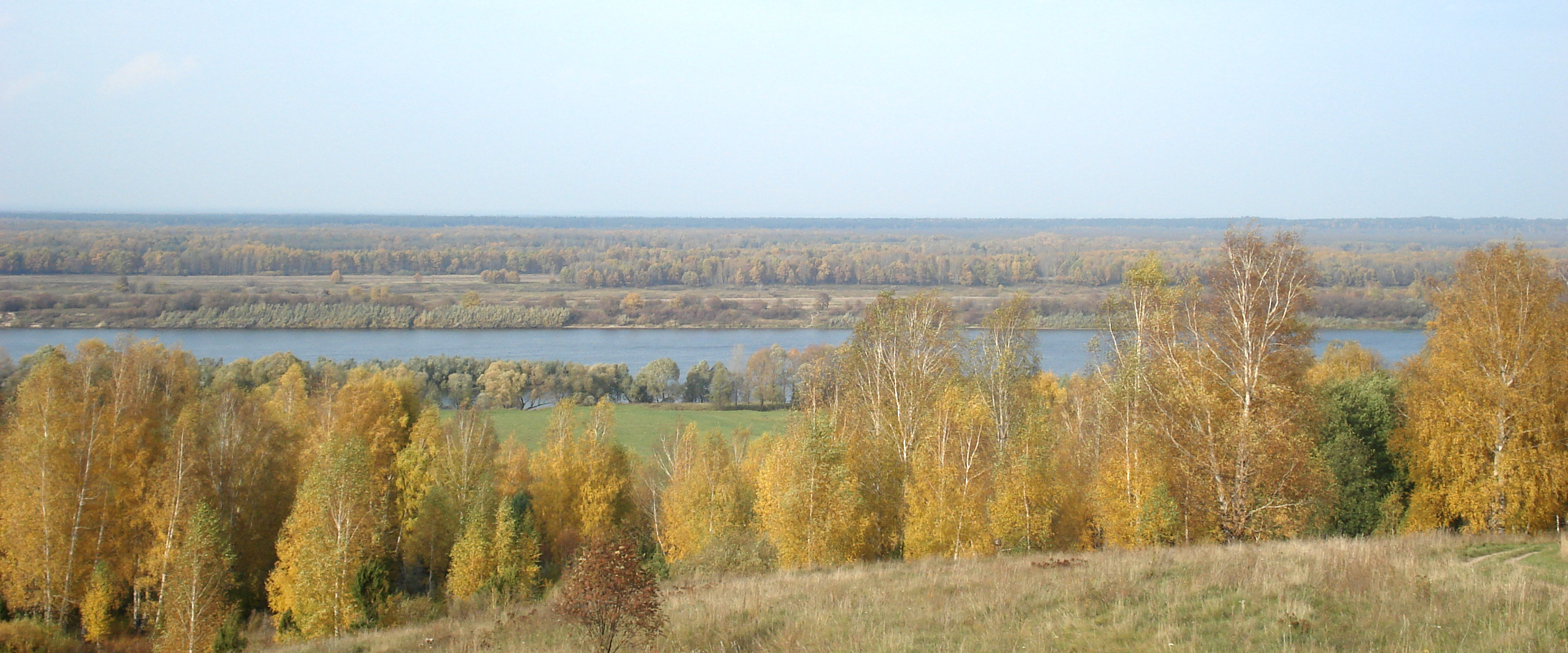 The Oka river near the village of Pozhoga. Nizhegorodskaya oblast. Russia.